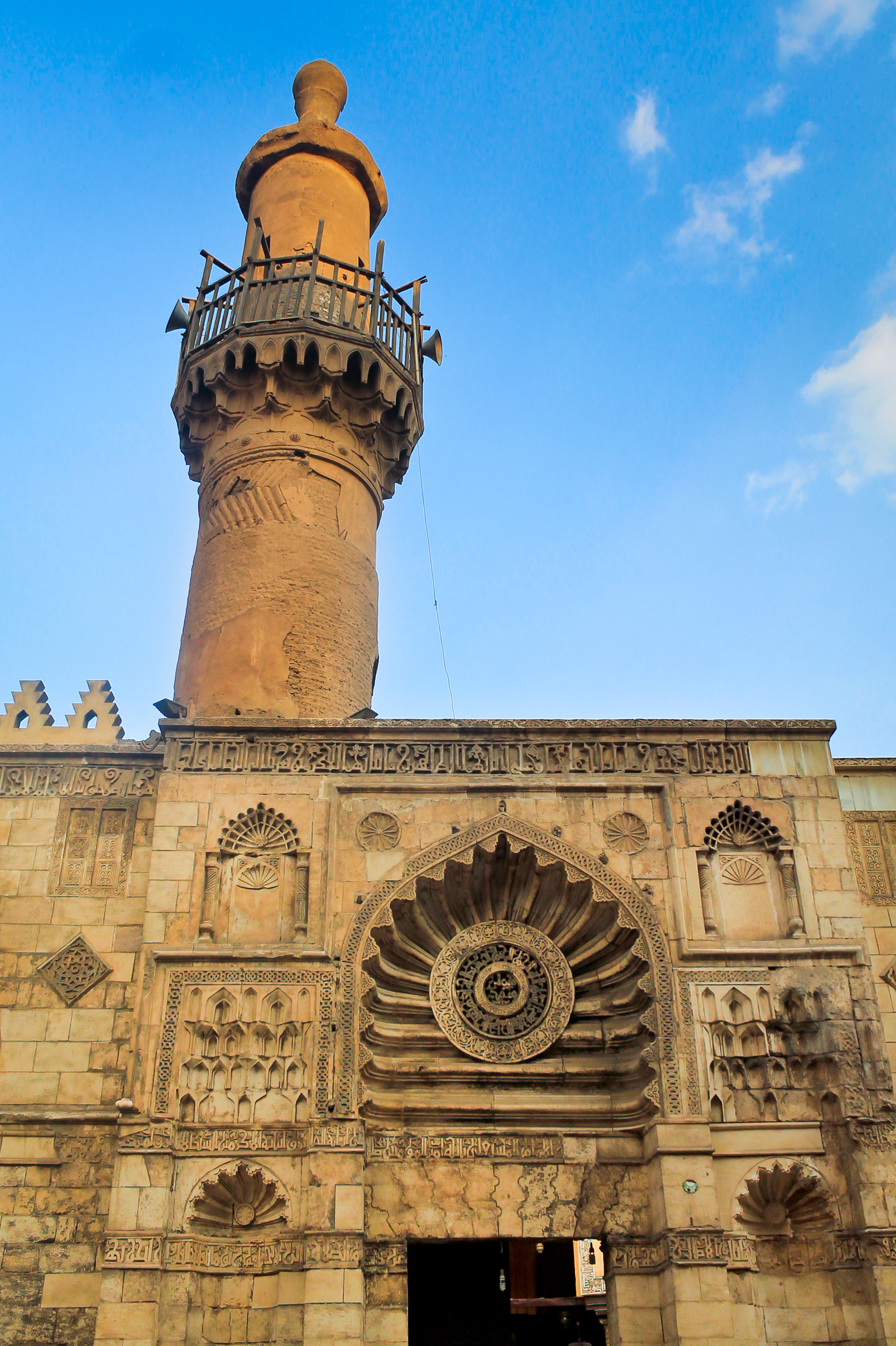 Al-Jam`e Al-ِAqmar(Arabic: الجامع الأقمر, literally:Moonlit mosque) or Al-Aqmar Mosque, also called Gray mosque, is a mosque in Cairo, Egypt dating from the Fatimid era. It was built in the under vizier al-Ma'mun al-Bata'ihi during the caliphate of Imam Al-Amir bi-Ahkami l-Lah.[1] The mosque is located on north Muizz Street.